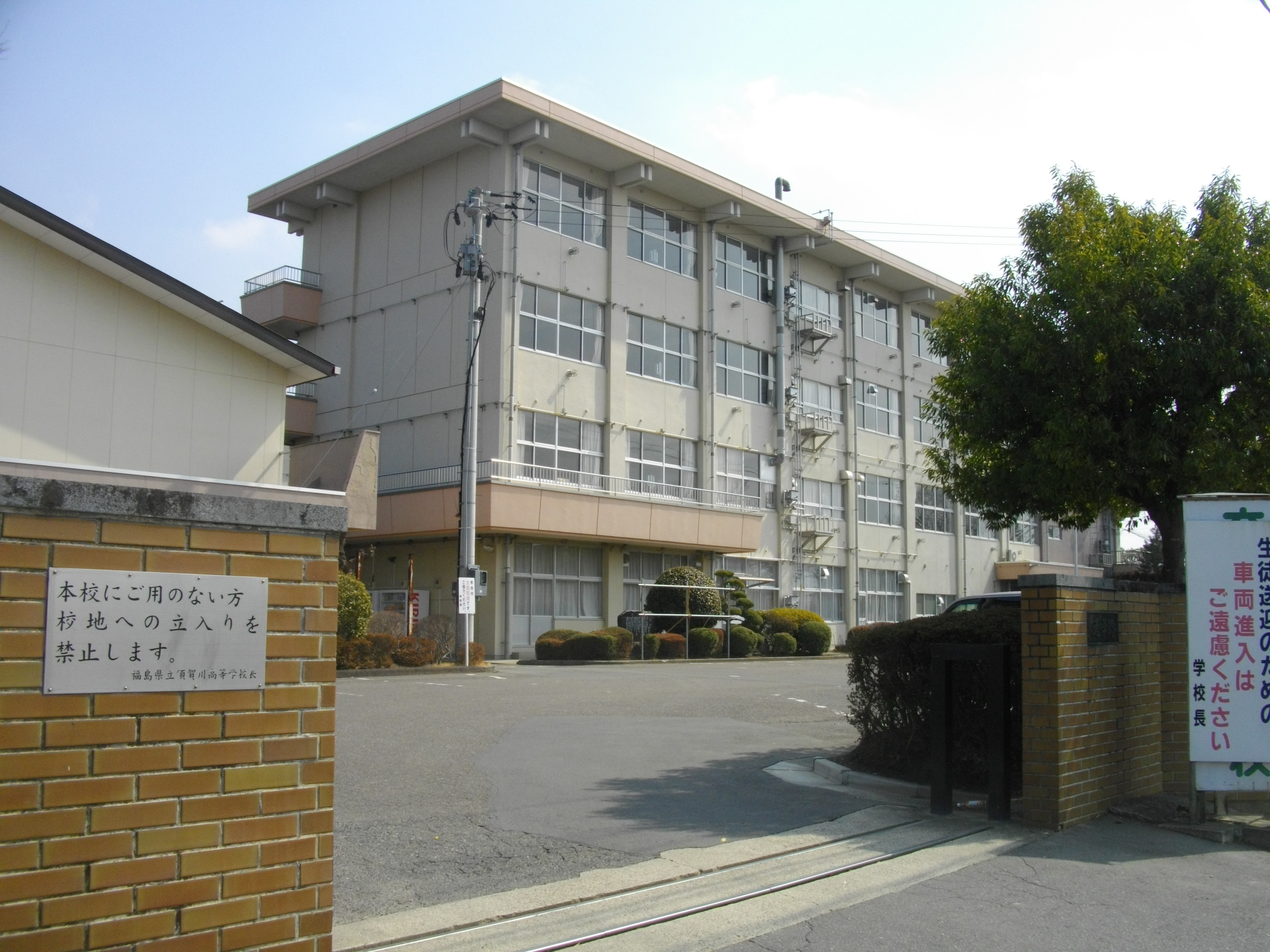 Sukagawa High School